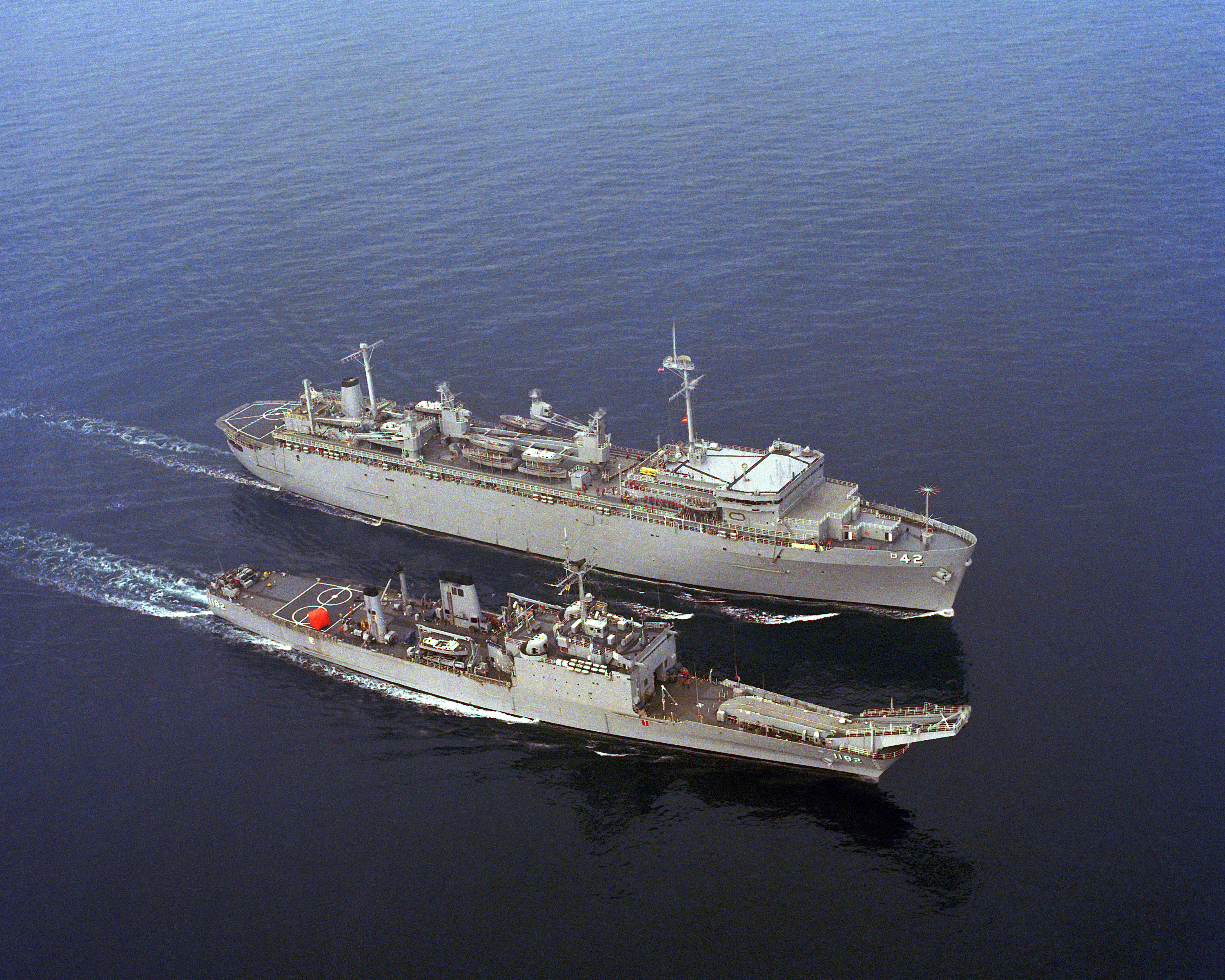 The U.S. Navy destroyer tender USS Acadia (AD-42) steaming alongside the tank landing ship USS Fresno (LST-1182) on 1 November 1982.